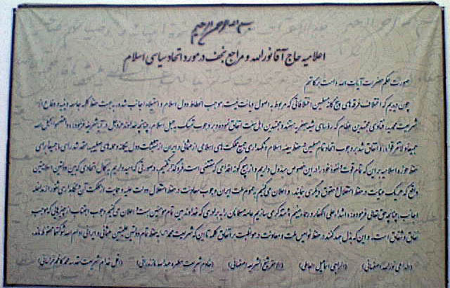 House-of-Constitutional-Revolution-Isfahan